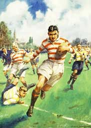 The Try, 1930s boys' comic illustration of play in a school rugby match.